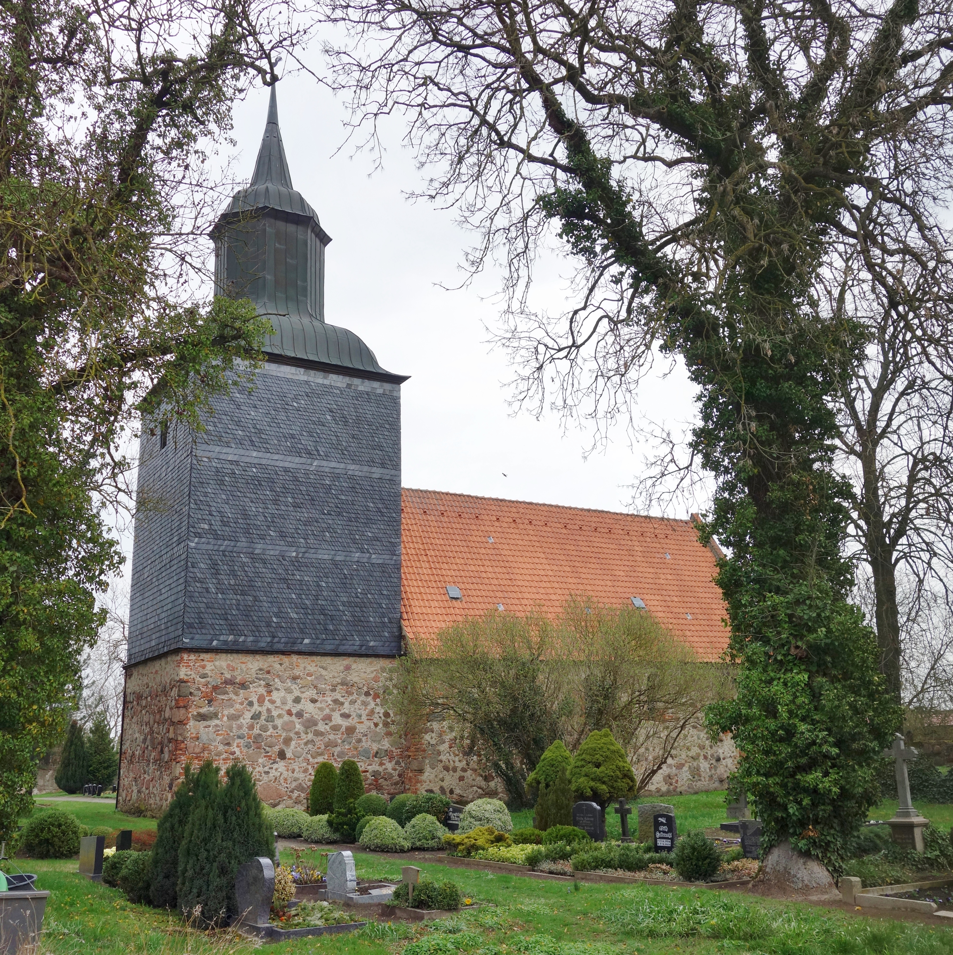 South-western view of church in Trebenow, Uckerland municipality, Uckermark district, Brandenburg state, Germany